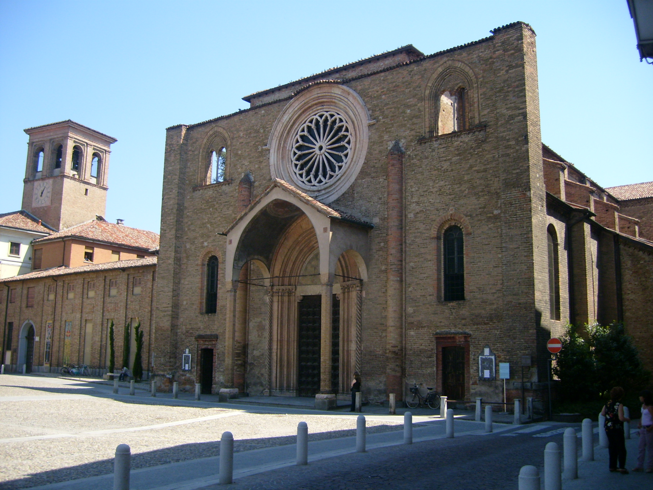 Saint Francis Church, Piazza Ospitale,Lodi,Italy, where Agostino Bassi is buried